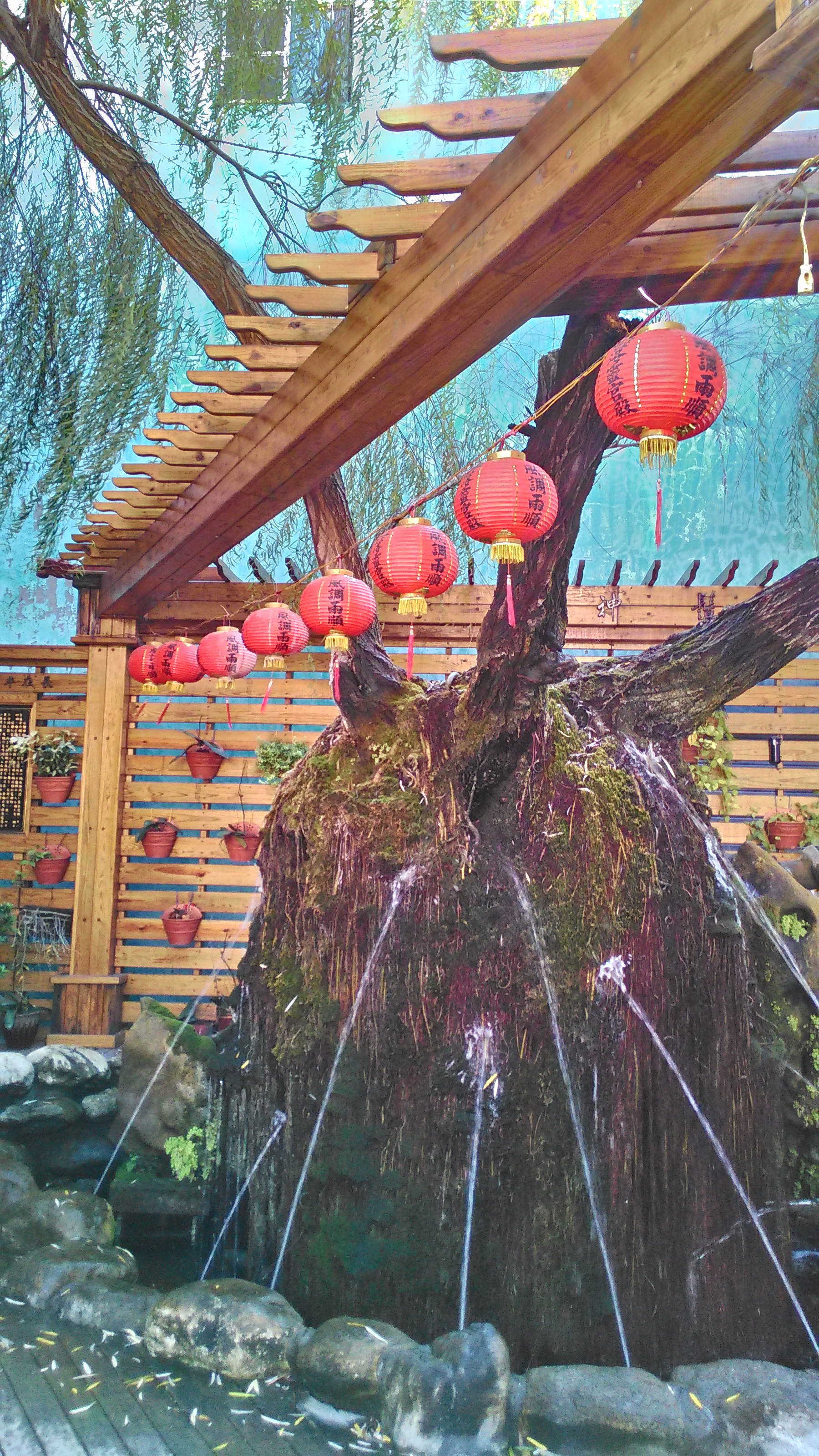 鳳邑豁落靈官殿王天君廟喚善堂外紅鬚神柳